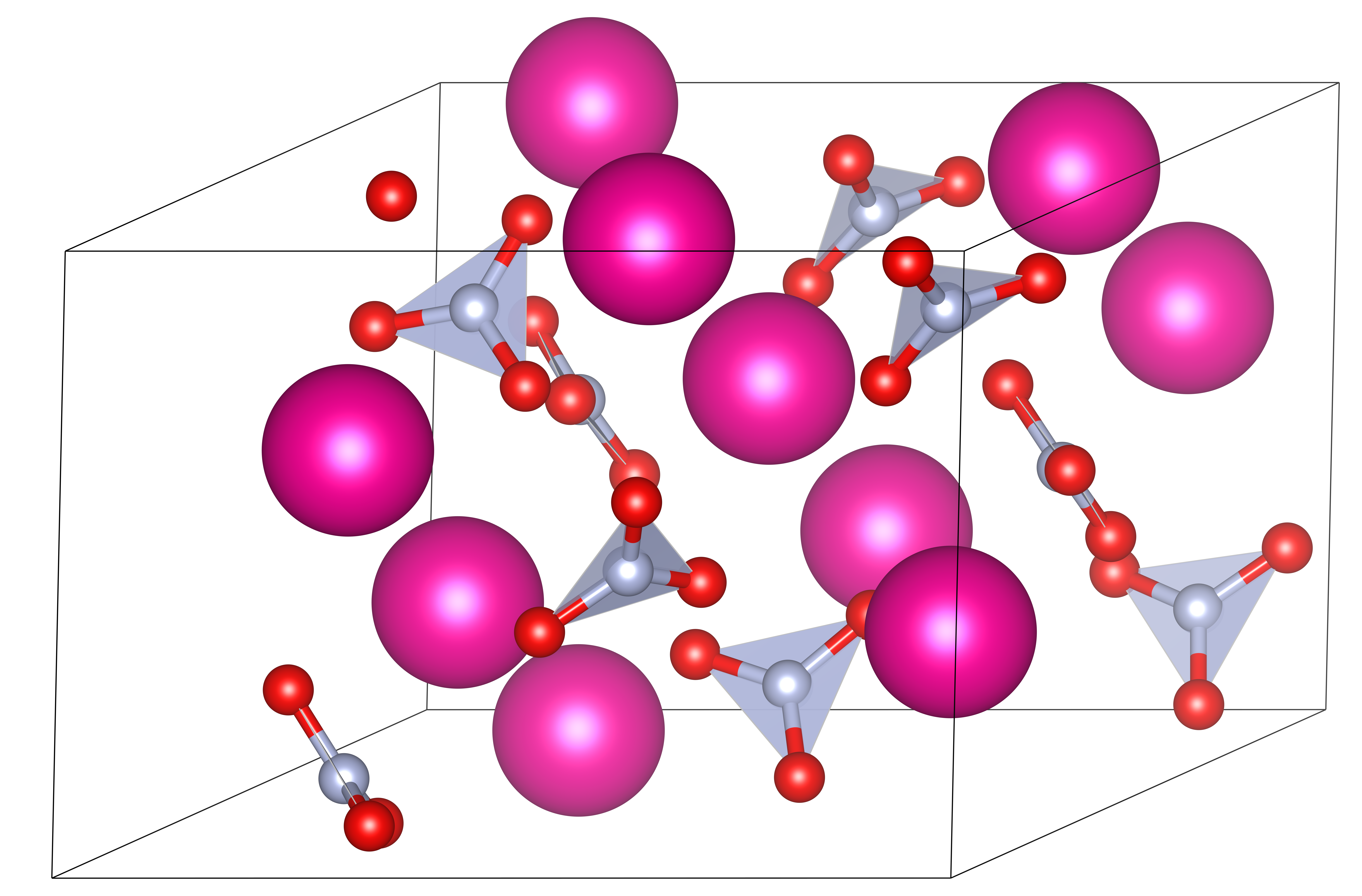 Unit cell of modification IV of rubidium nitrate (RbNO3). Created with VESTA. Source of crystal structure